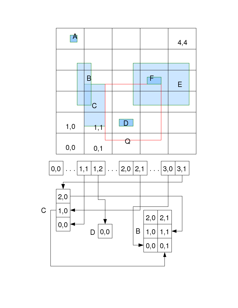 a computation geometry data structure to allow efficient region queries.